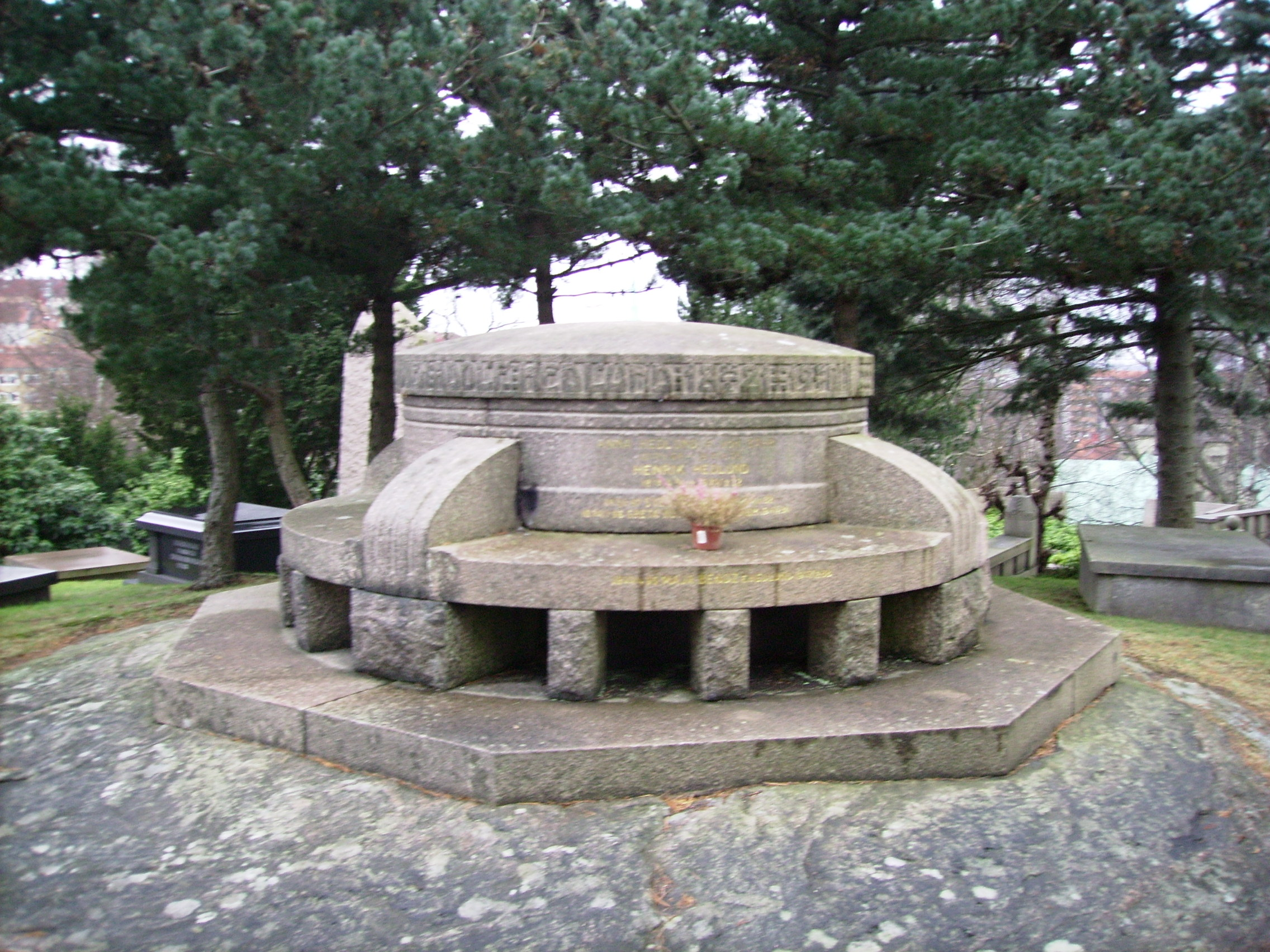 S.A. Hedlund's grave in Östra kyrkogården i Gothenburg.